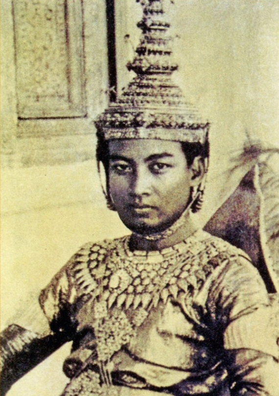 Sihanouk in coronation regalia, November 1941